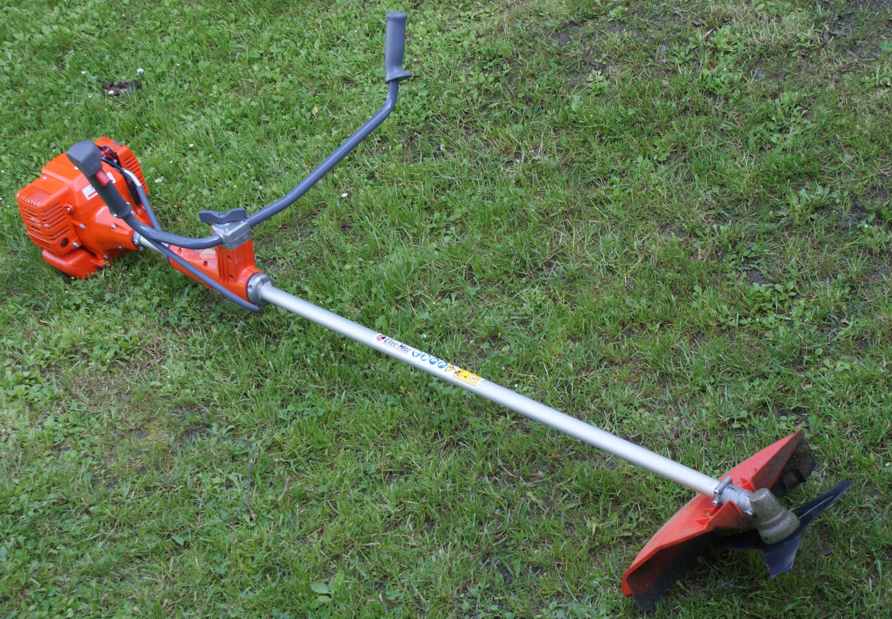 A brush cutter powered by a 2-stroke engine.